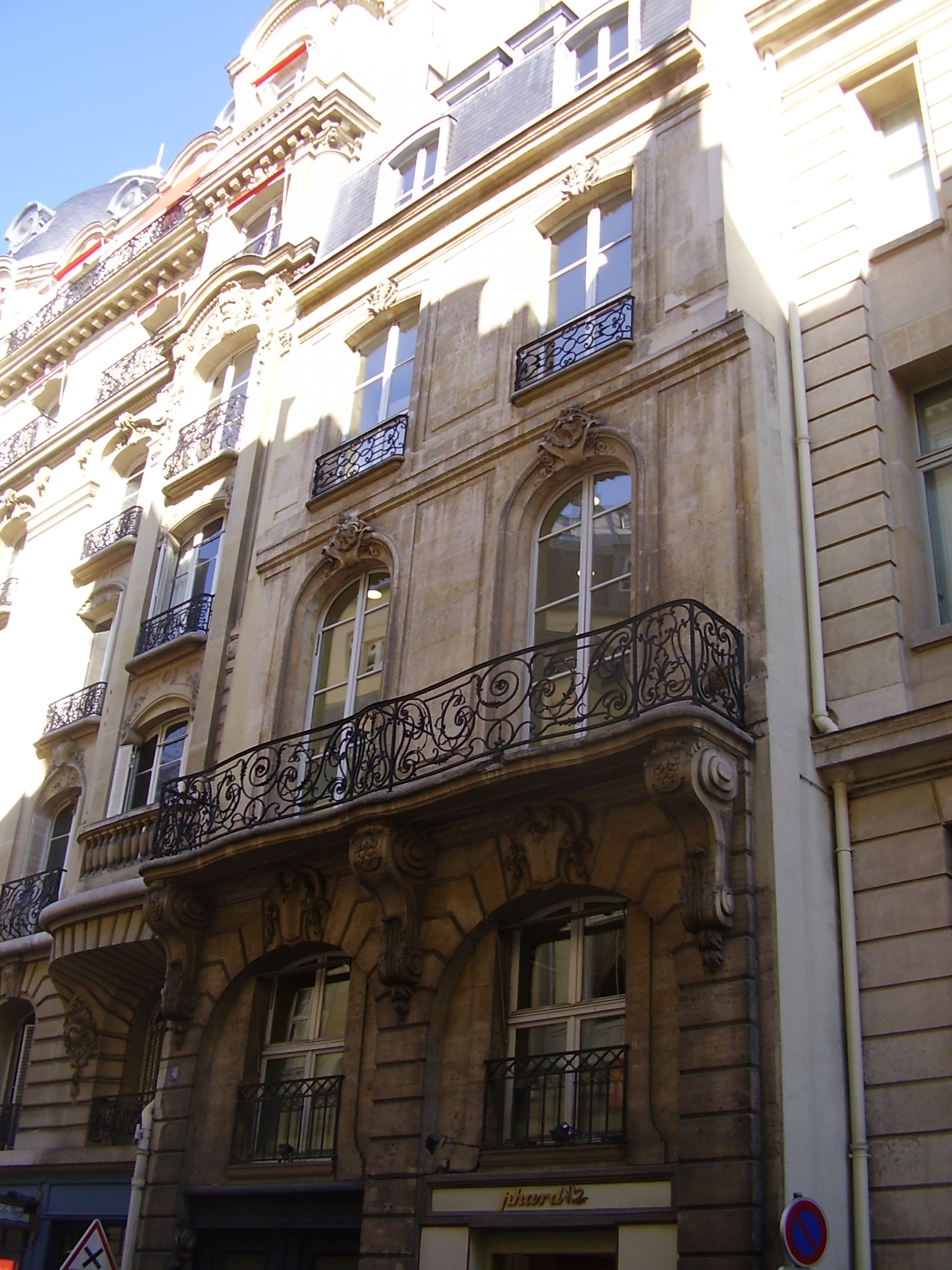 hôtel de La Feuillade. 4 rue La Feuillade, Paris 2nd arrondissement